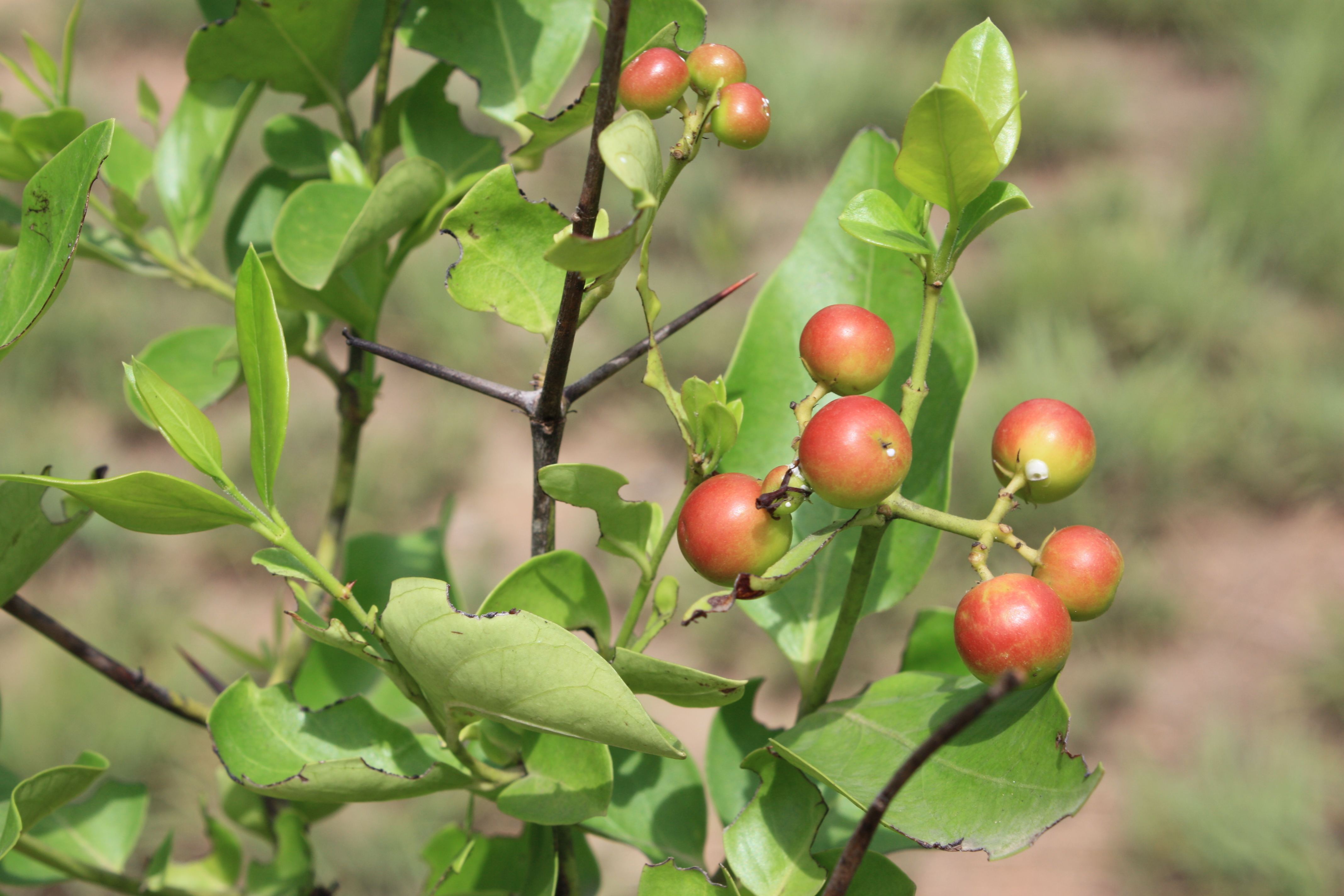 fruits of Carissa edulis Carissa spinarum, NW Burkina Faso